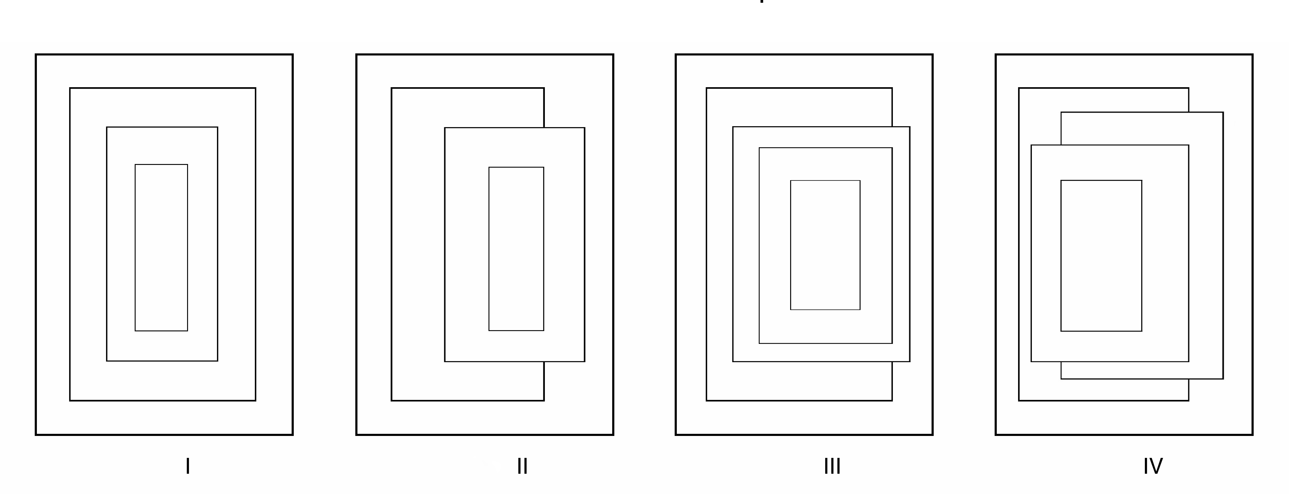 Albert Gleizes (after) 1. Movements of translation of the plane to one side